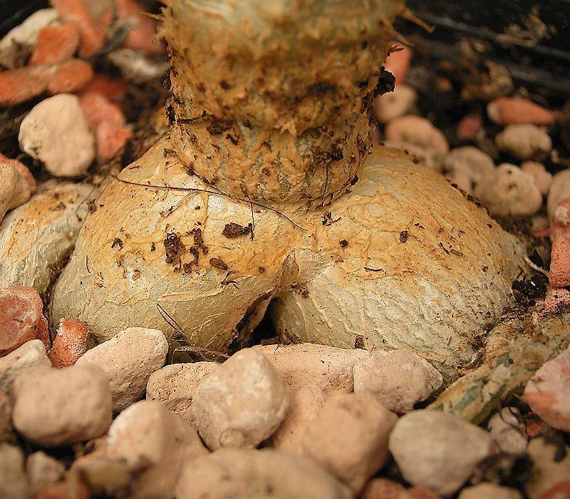 Euphorbia parvicyathophora